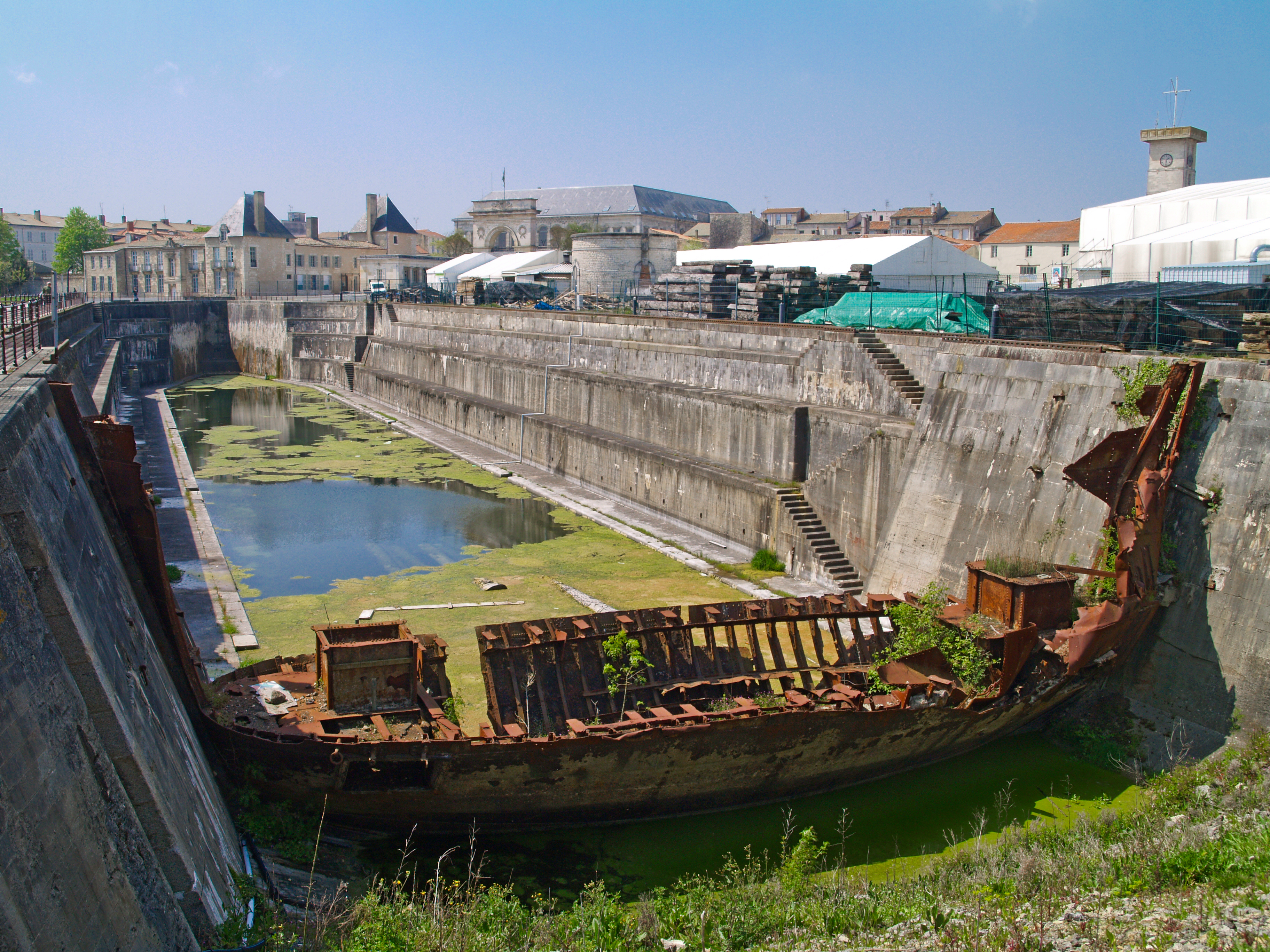 Rochefort (Charente-Maritime, France) - The forme Napoléon III, a 19th-century drydock, with the remains of the boat used as a gate.